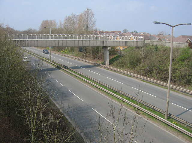 A4232, Caerau. Looking west along the A4232 from Caerau Lane bridge. The pedestrian footbridge in the photo would appear to connect The Mary Immaculate High School with Caerau. I am not sure if this bridge is still in use ?